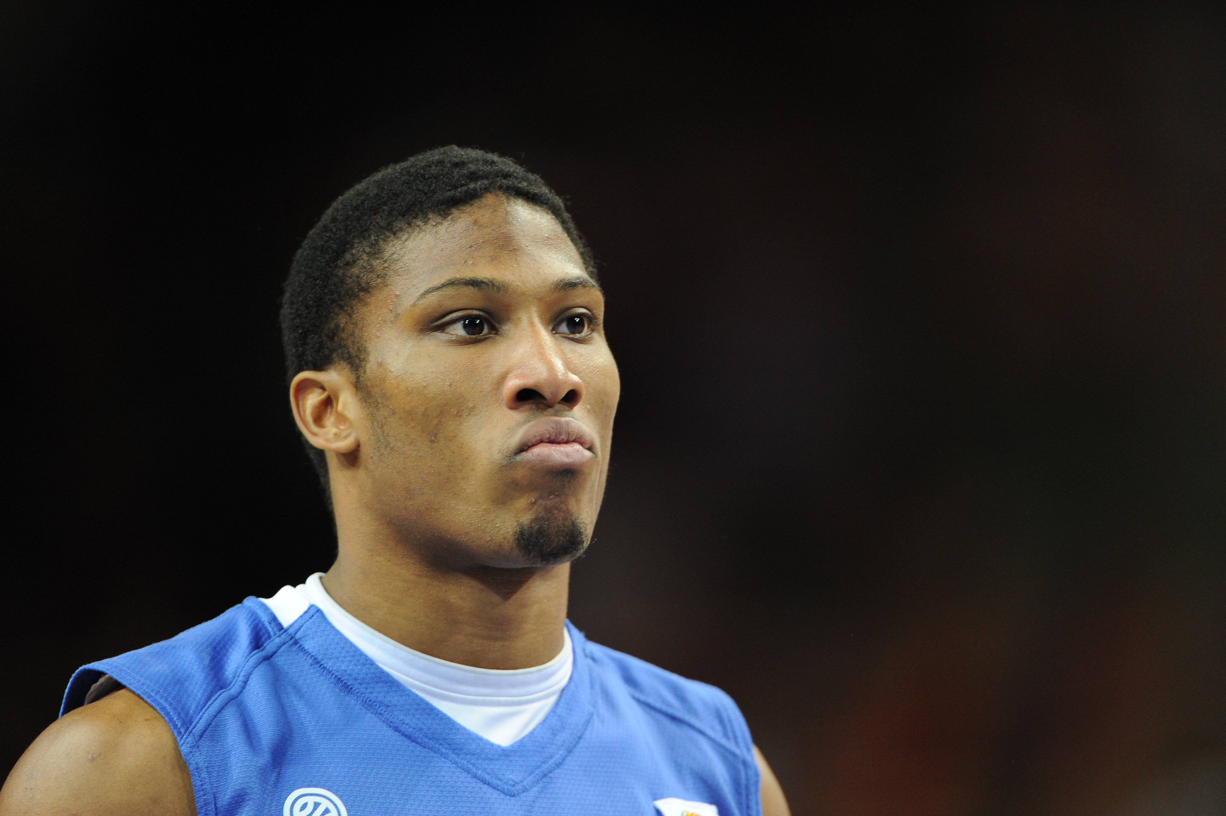 Andrew Albicy at EuroBasket 2011.